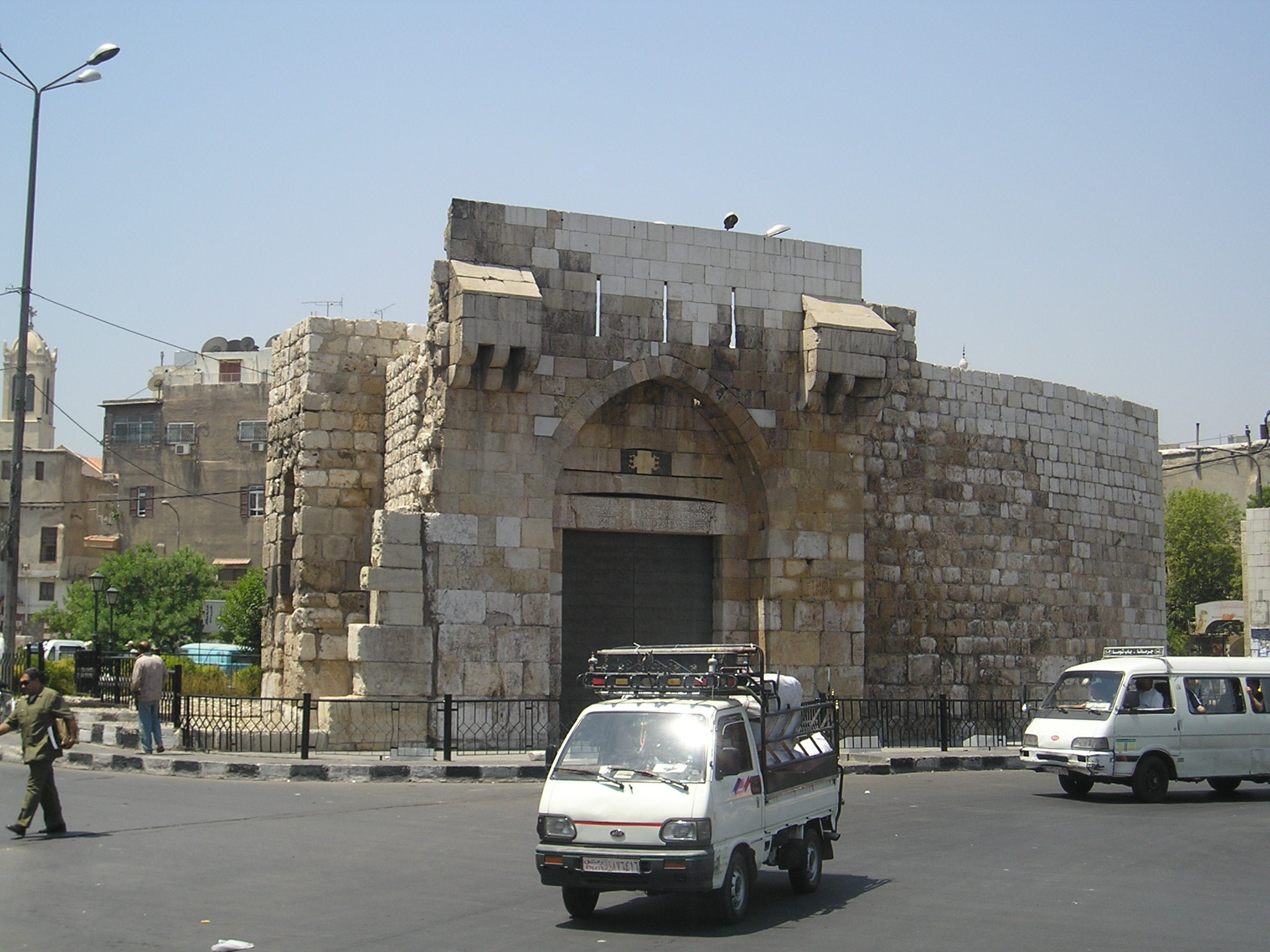 Damascus, Syria - Bab Touma (Thomas Gate) at the northern edge of the walled old city